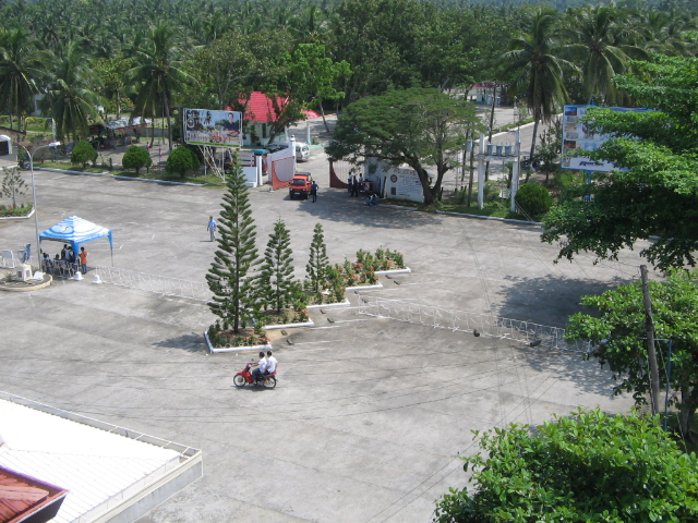 Airport parking zone converted to aviation security buffer zone.All vehicles are parked outside the gate. ARIEL C. NUNAG